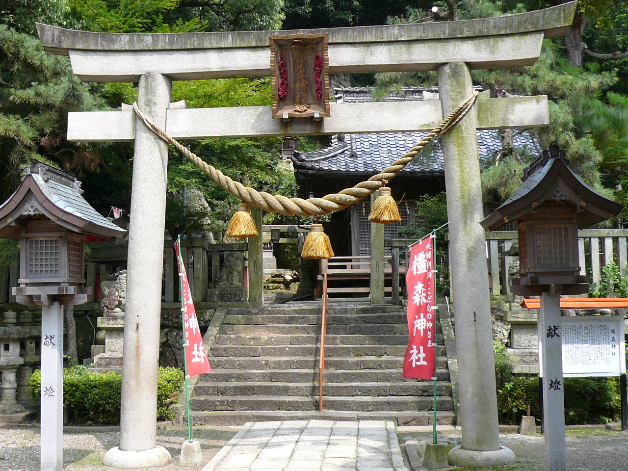 I took this picture of the entrance to Kashimori Shrine in July 2007.